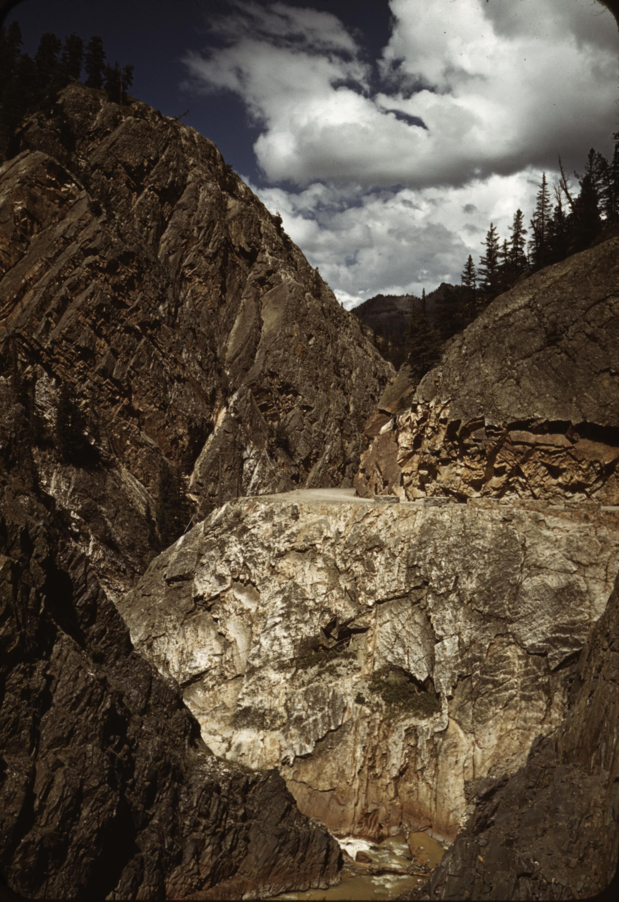 Million dollar highway (U.S. 550) is cut through massive rocks in Ouray County, Colorado.